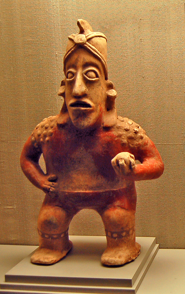 An Ameca-style figurine, likely from Jalisco, Mexico, part of the Western Mexico shaft tomb tradition. Note the horn on the head, a not uncommon attribute of this style. Also note that the figurine is carrying a ball (see Category:Mesoamerican ballgame).